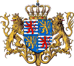 Luksemburgi keskmine vapp